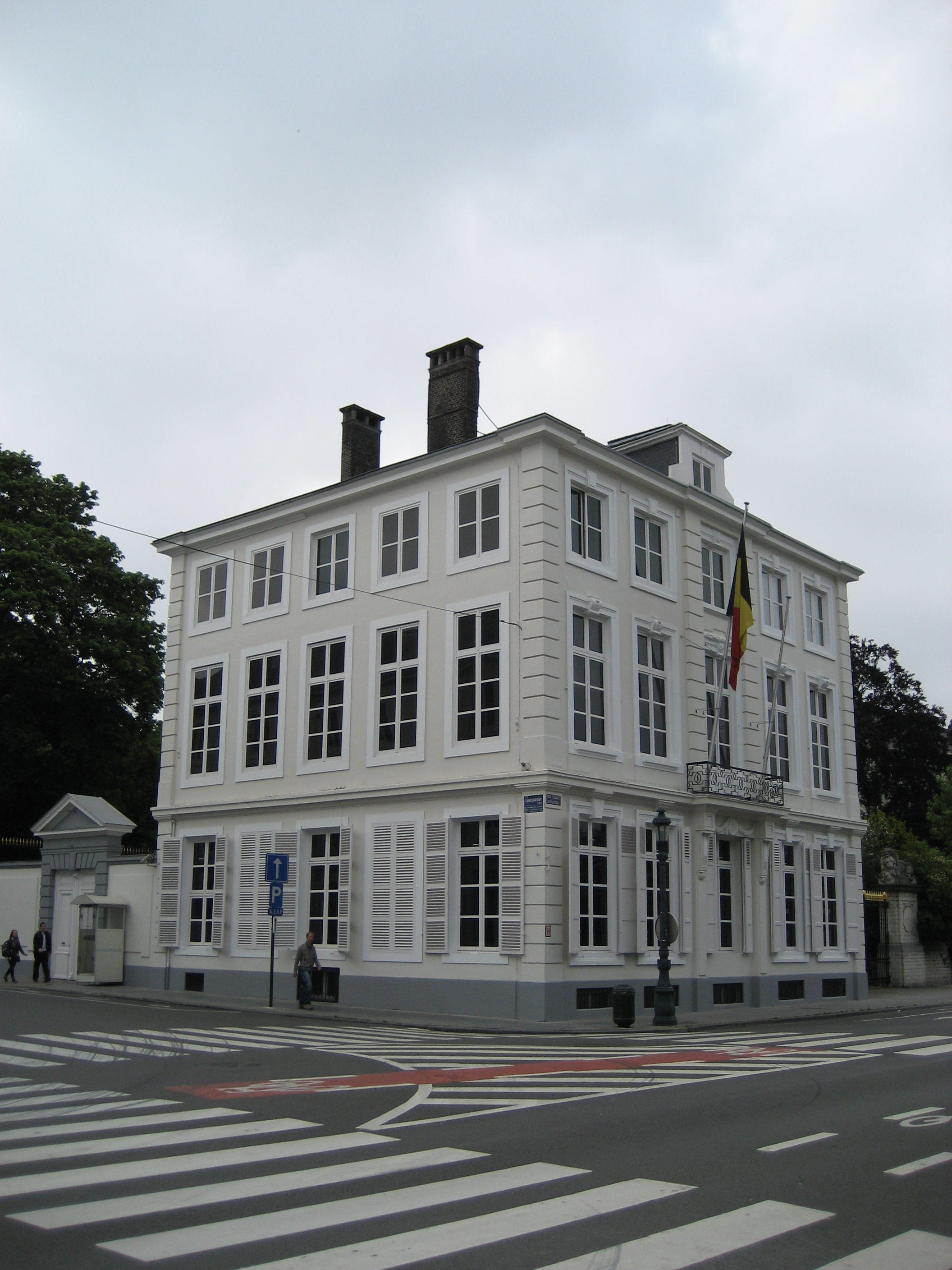 Lambermont Building - Residence of the Belgian Prime Minister